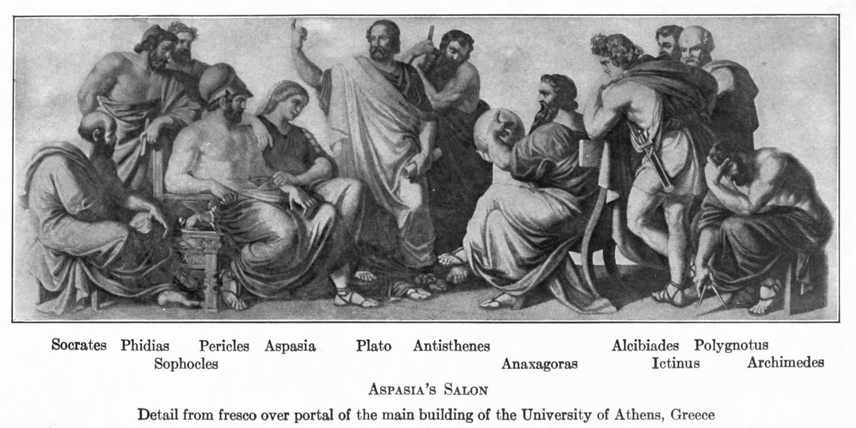 Aspasia's salon. Details of fresco over portal of main building in University of Athens, Greece